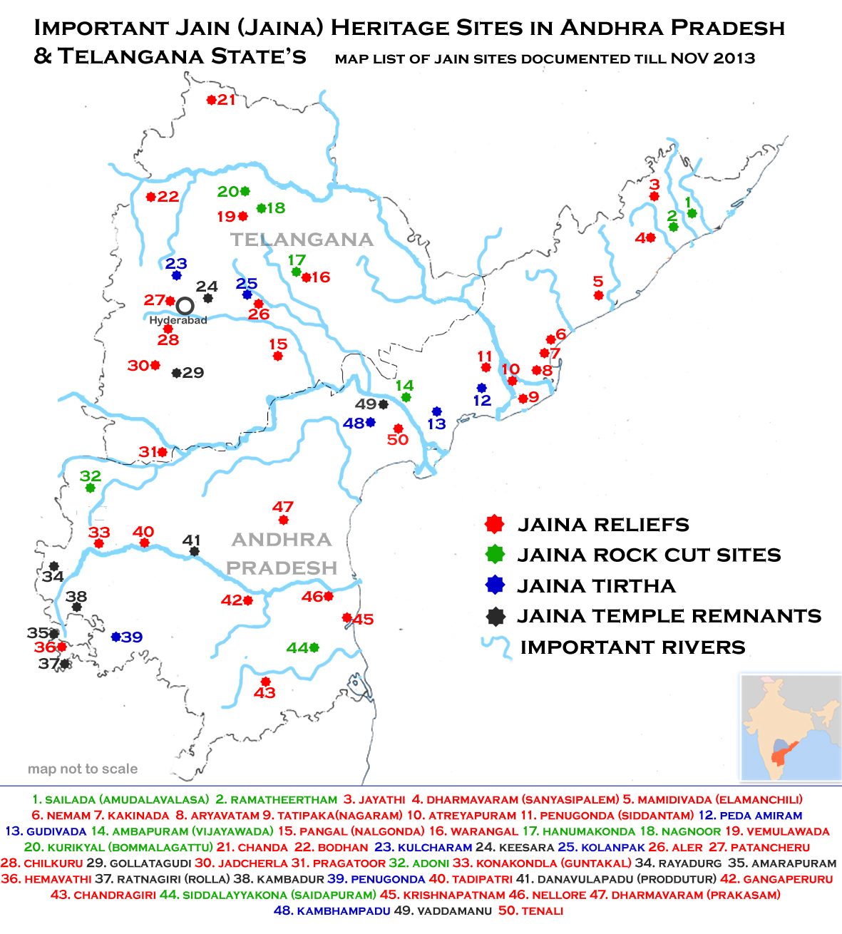 A map of Important Jain Heritage sites in Andhra Pradesh.(Documented till Nov 2013)